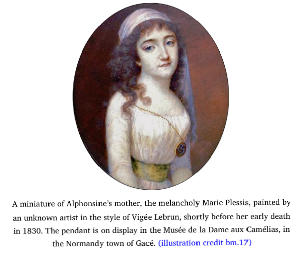 A miniature of Alphonsine Rose Plessis' Mother, Marie Plessis. The miniature is at Gace Museum in Normandy.